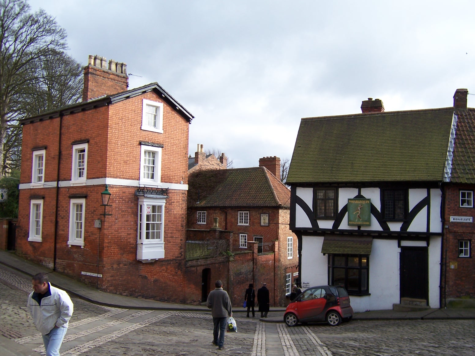 upper end of Steep Hill, Lincoln (England) own work